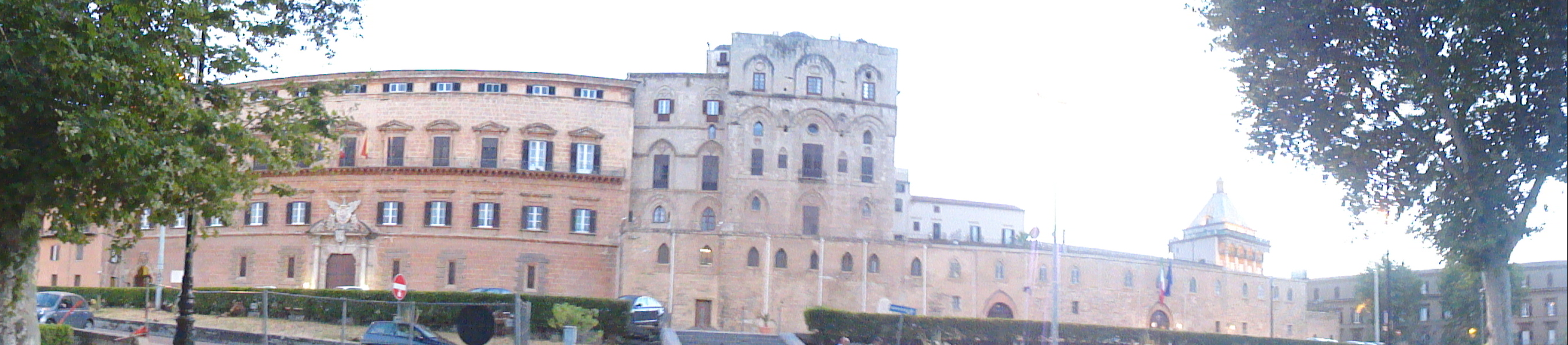 Panoramic view of Palazzo dei Normanni / Palazzo Reale in Palermo, Sicily, Italy. The photo is made just before sunset. Check out our blog at